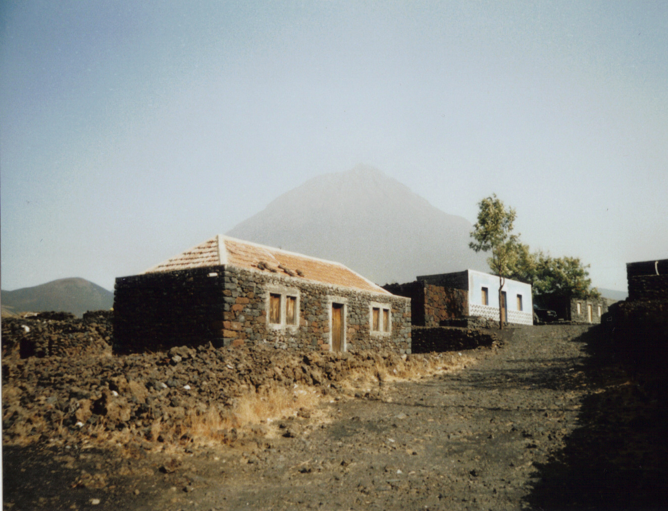 Village of Bangaeira, Main Street, island of Fogo, Cape Verde